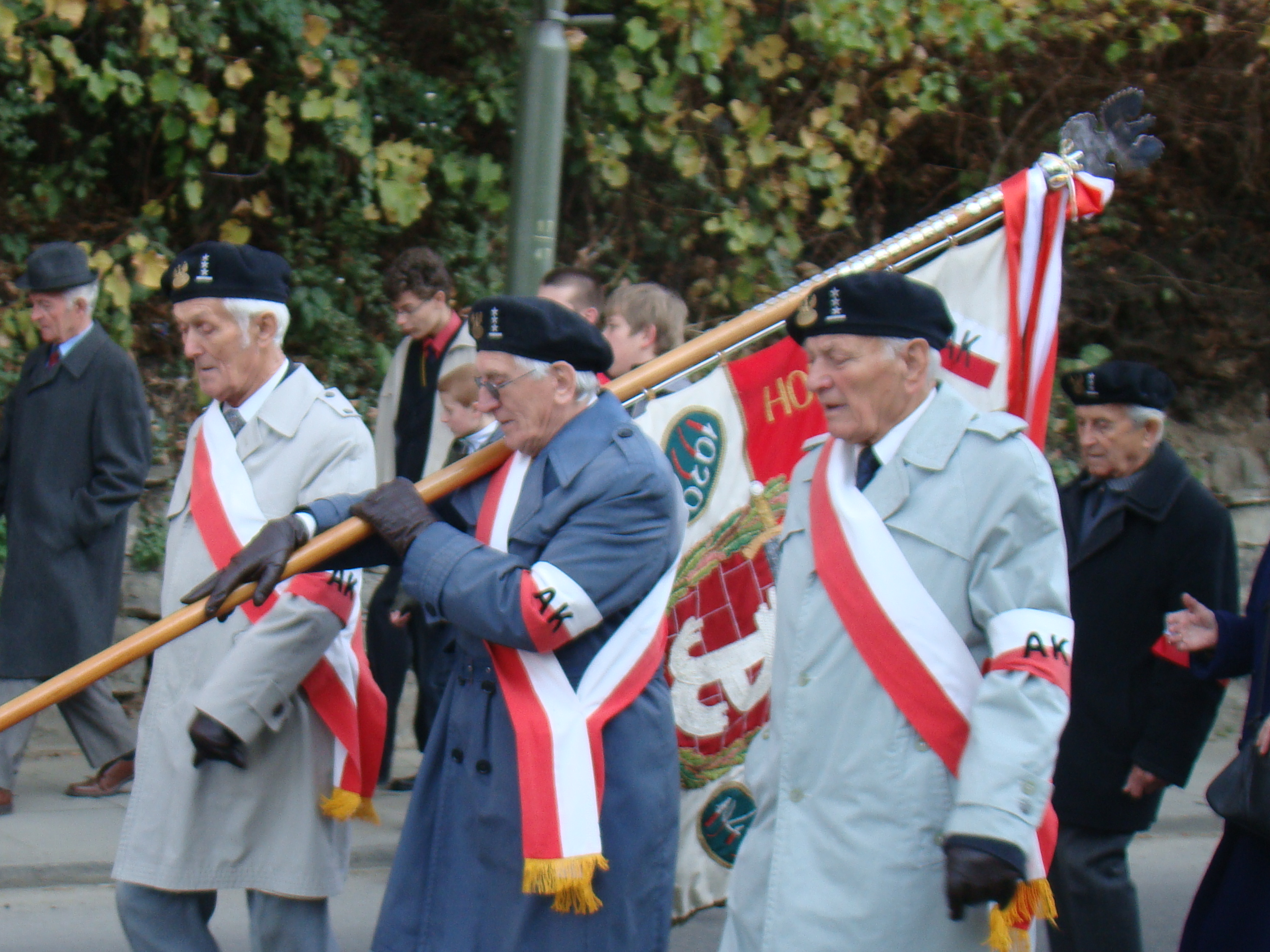 Polish resistance fighters.Sanok. 2008.